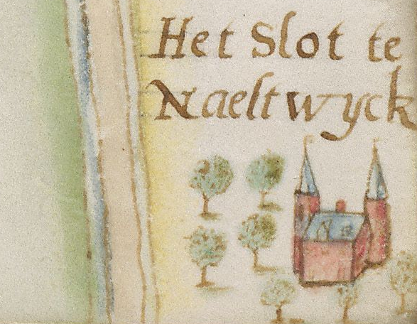 House Honselaarsdijk before 1609